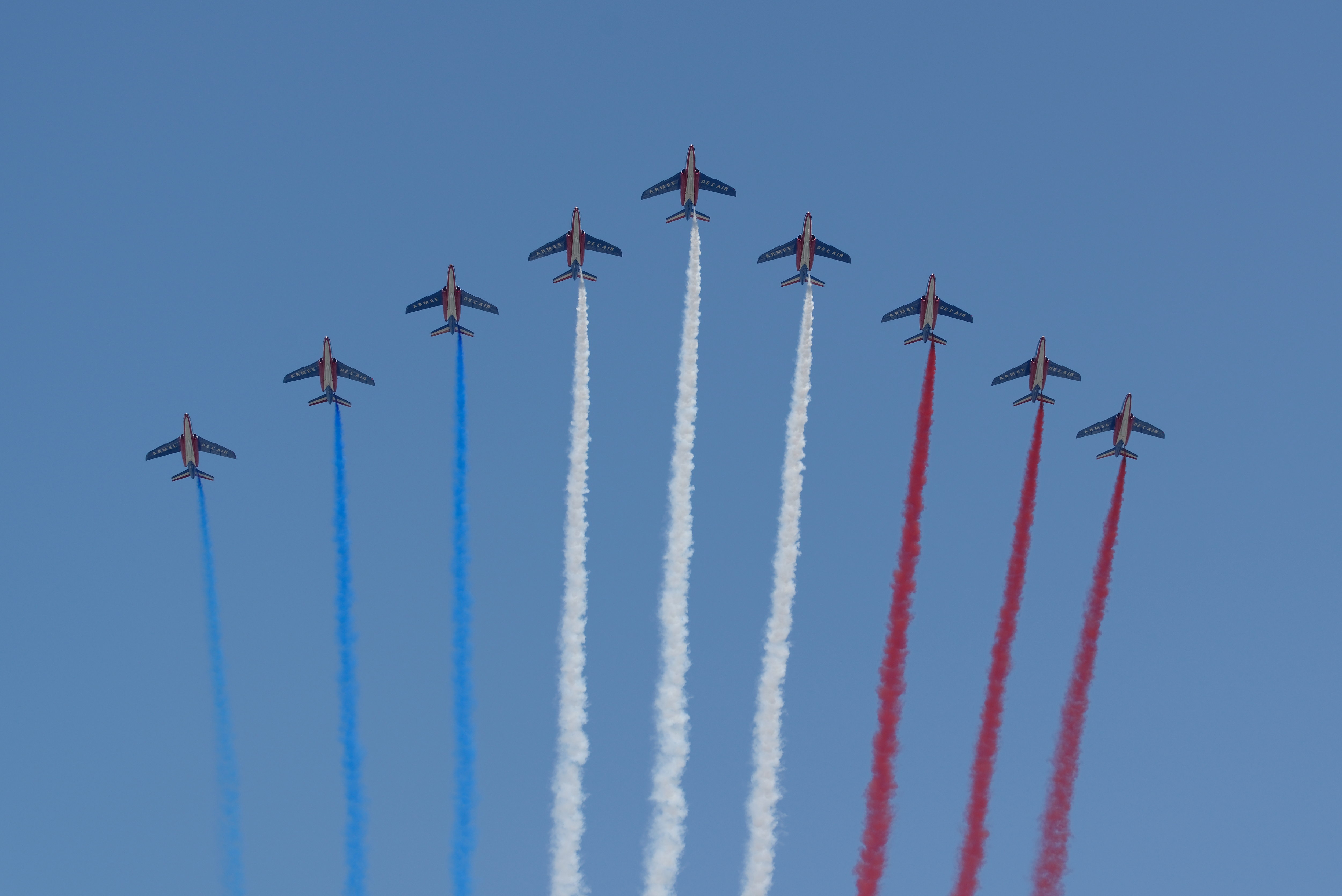 The Patrouille de France's Alpha Jets opens the fly-past at the Bastille Day 2013 military parade on the Champs-Élysées in Paris.